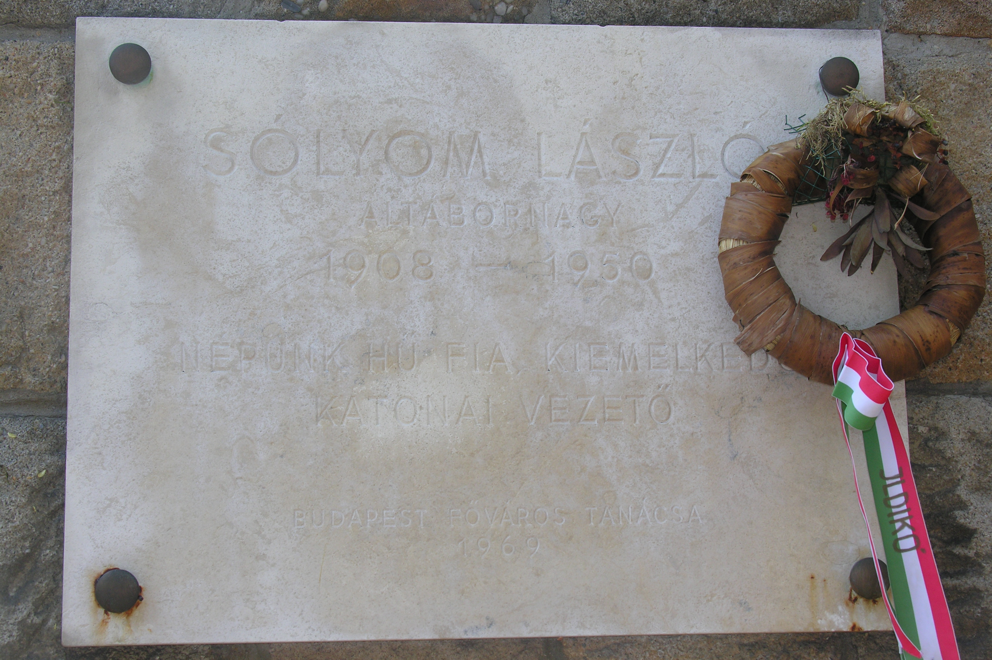 Commemorative plaque of László Sólyom (1908–1950) in Budapest District II, Eszter Street No 2